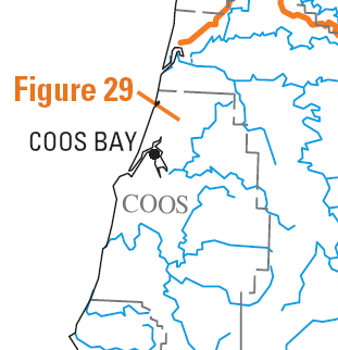 River drainage basins in Oregon, cropped to the Southern Oregon Coast Range